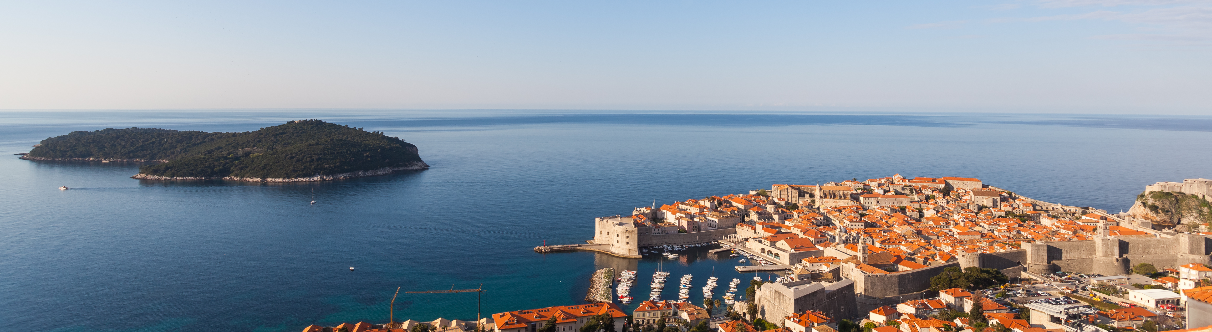 Panoramic view of the old city of Dubrovnik, Croatia